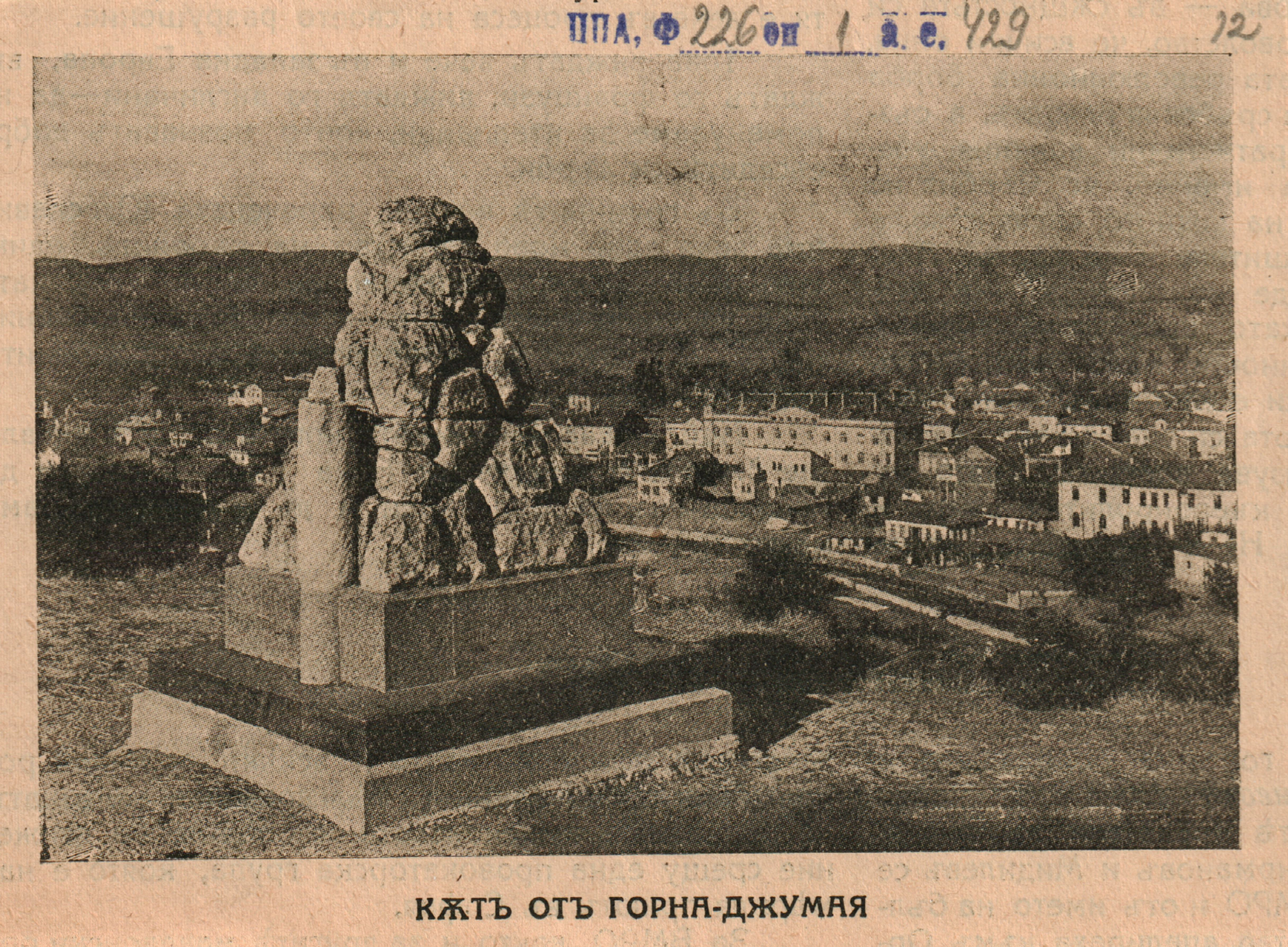 Photo from the Macedonian National Council, 1932 in Gorna Dzhumaya (Blagoevgrad).